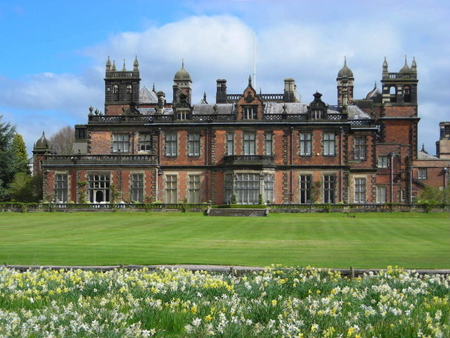 Photograph of the garden front of Capesthorne Hall, Cheshire